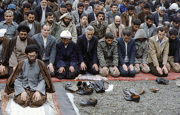 Ayatollah Sayyed Ali Khamenei leading Jumu'ah prayer and Edoardo Agnelli is sitting in the first row.